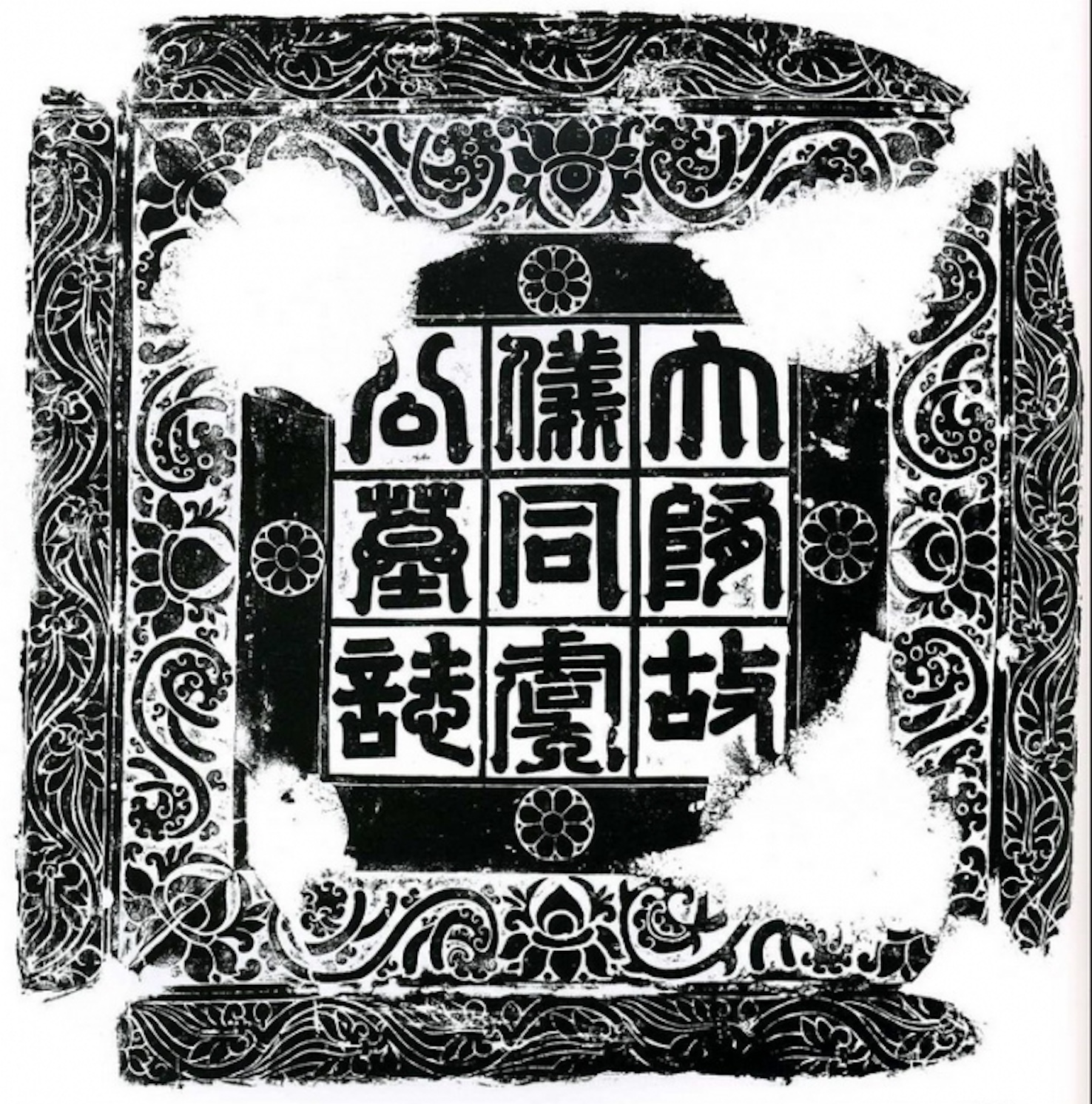 The rubbing of Yü Hung’s epitaph cover.